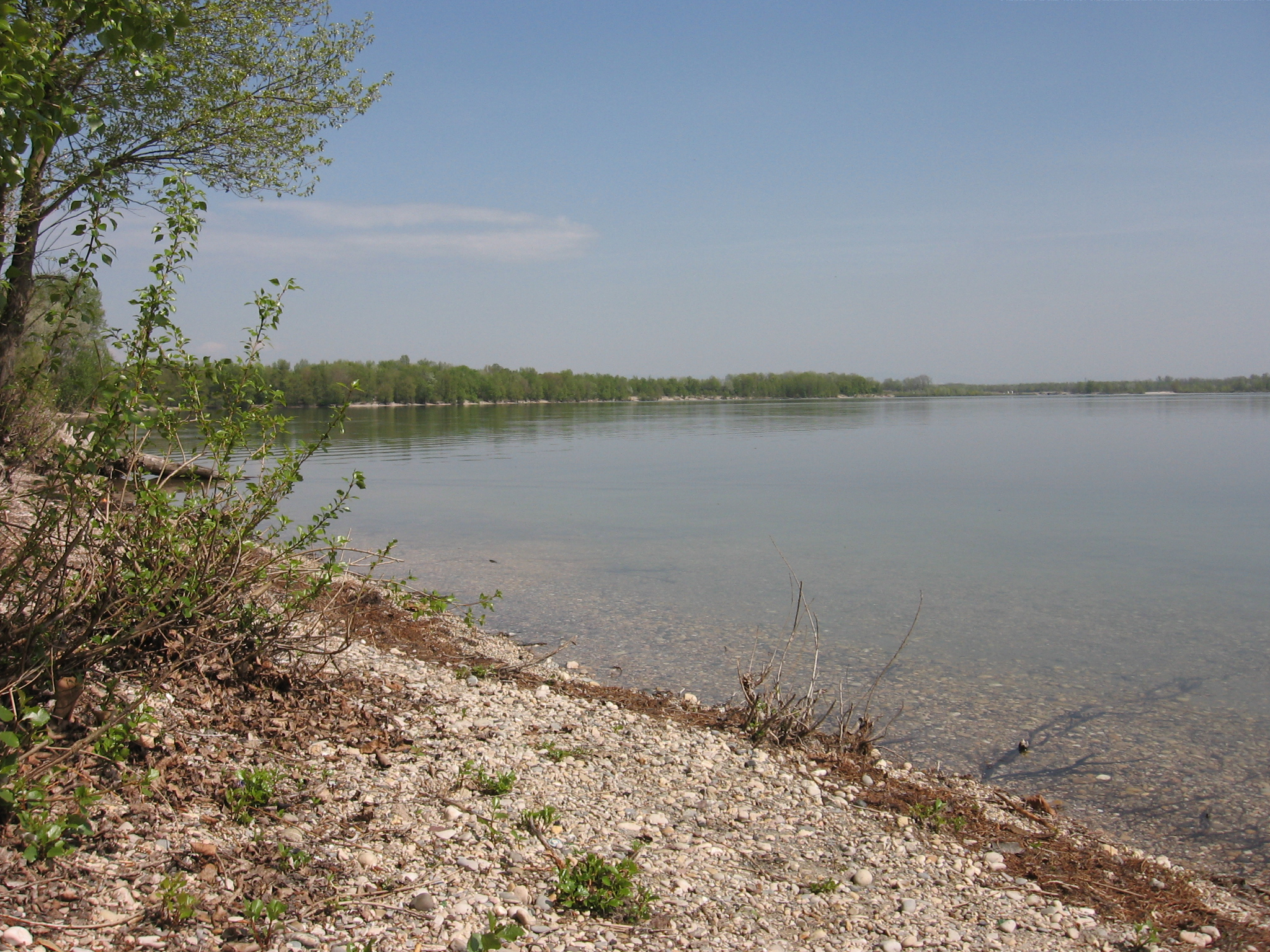 Grand parc de Miribel-Jonage, France